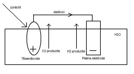 Simplified illustration of the photo catalytic hydrogen production with the use of TiO2